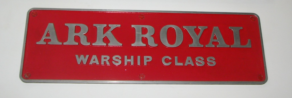 The nameplate of British Railways Warship Class locomotive D601 Ark royal on display at the National Railway Museum, York, England. (Note: the angle of view distorts the rectangular plate)